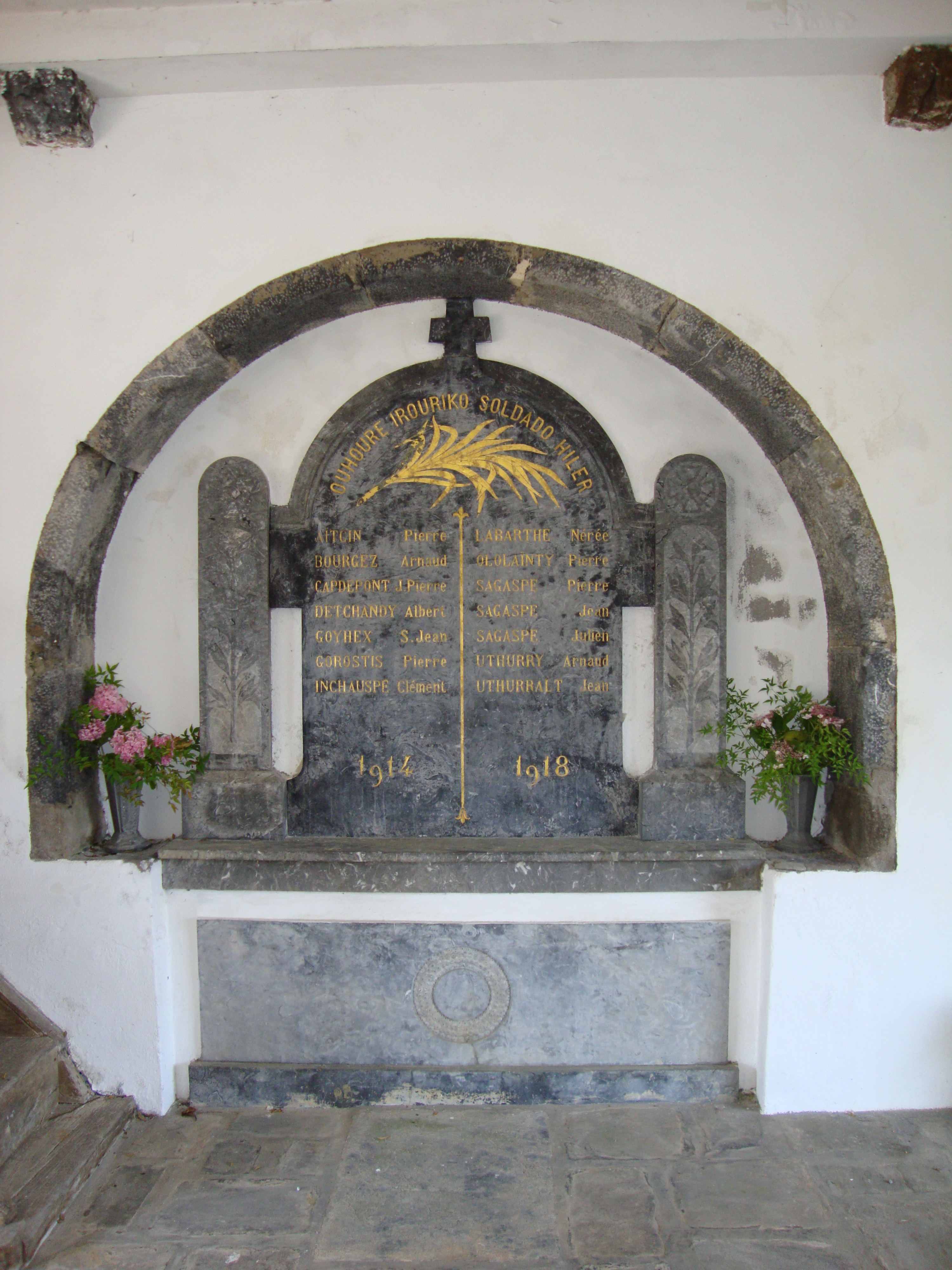 Trois-Villes (Pyr-Atl, Fr) war memorial